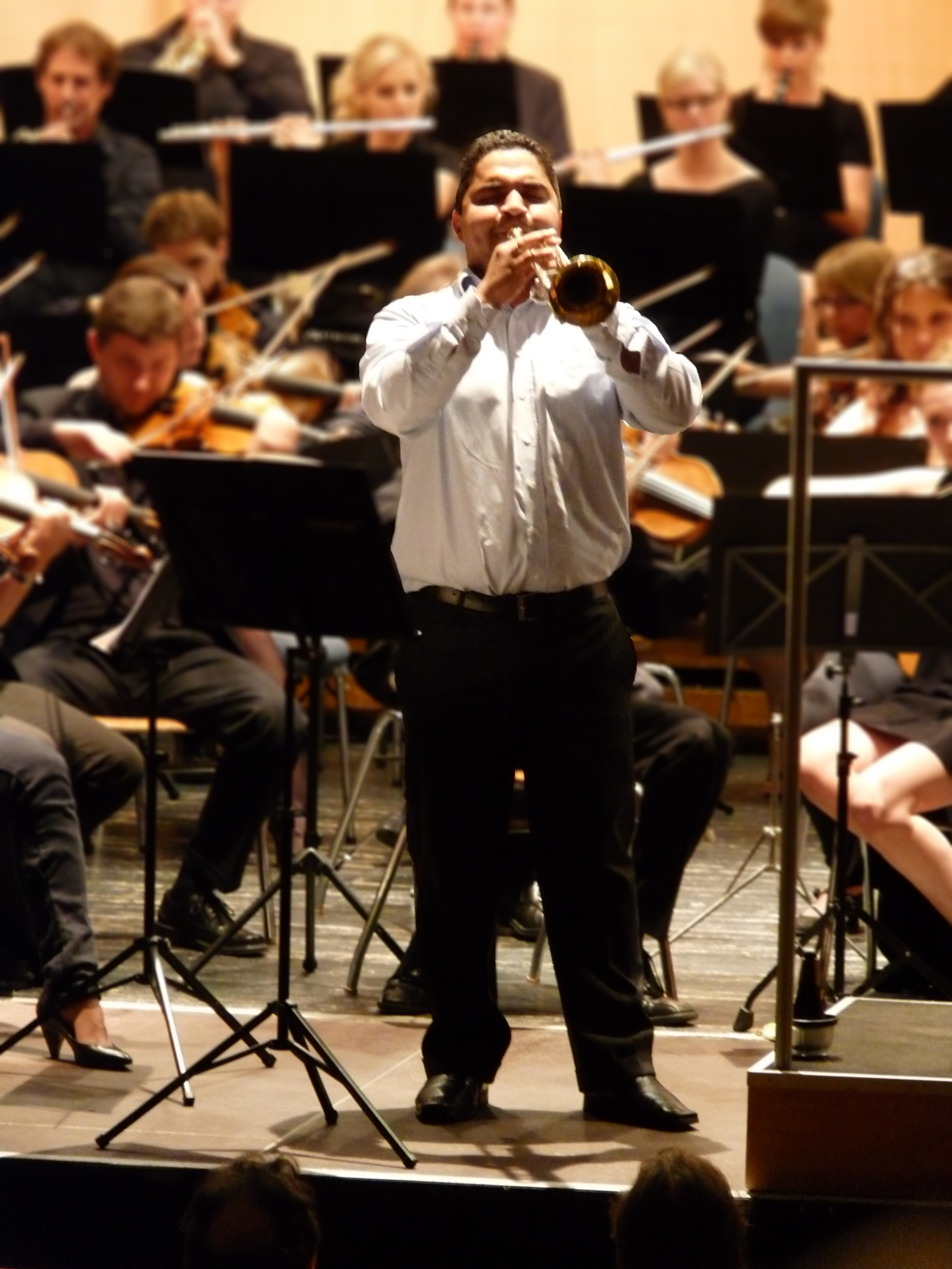 Nicaraguan trumpet player David Salomon Jarquín with Junges Sinfonieorchester Münster (Germany)